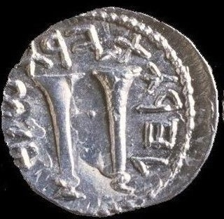 Chotzotzra on Bar Kochba coinage